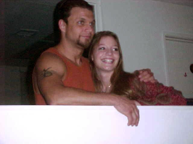 Aurora Snow and Jay Ashley behind the scenes at the Tera Patrick show.